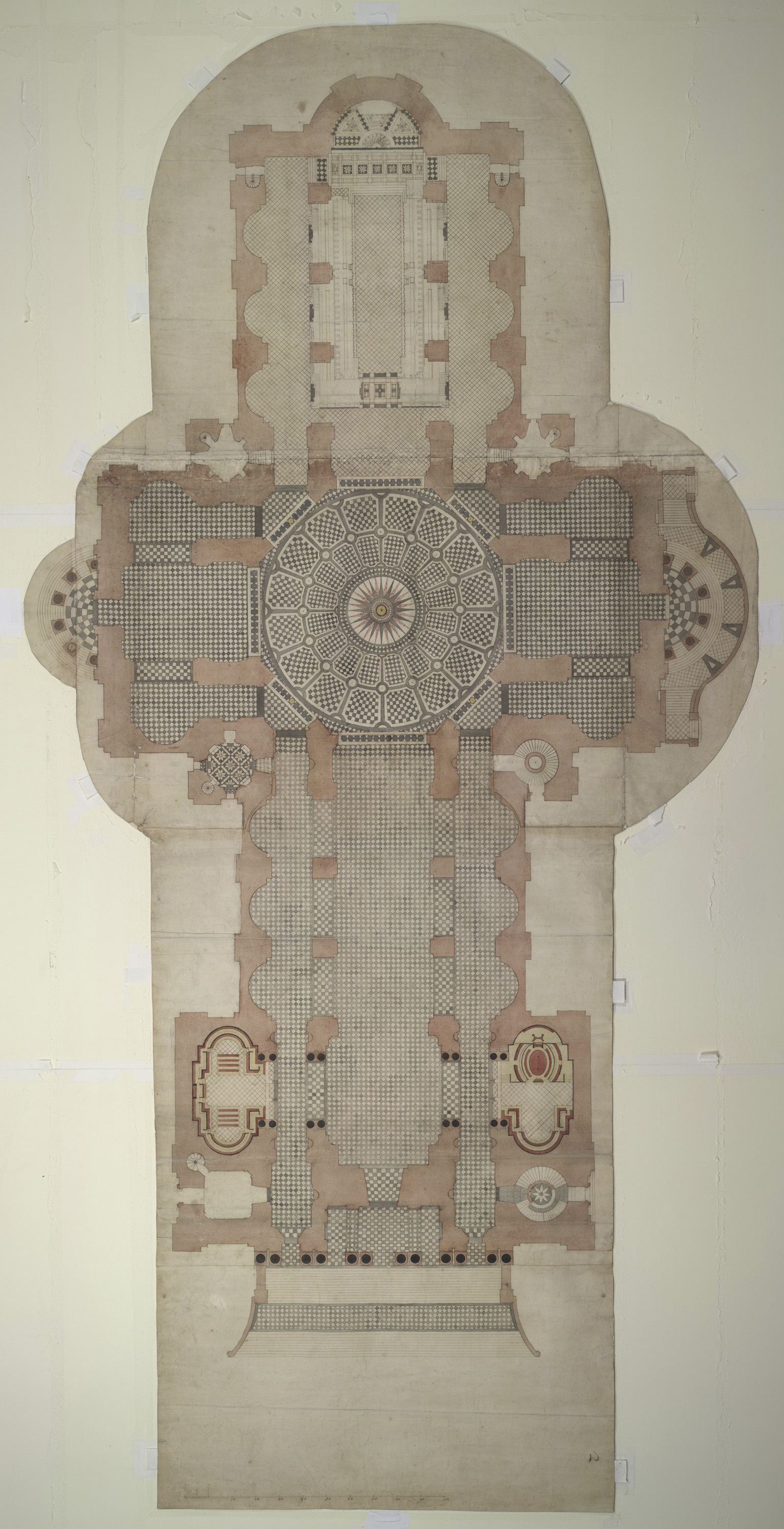 Complete plan of the church-floor paving at St Paul's Cathedral. Drawn by William Dickinson, c.1709–10